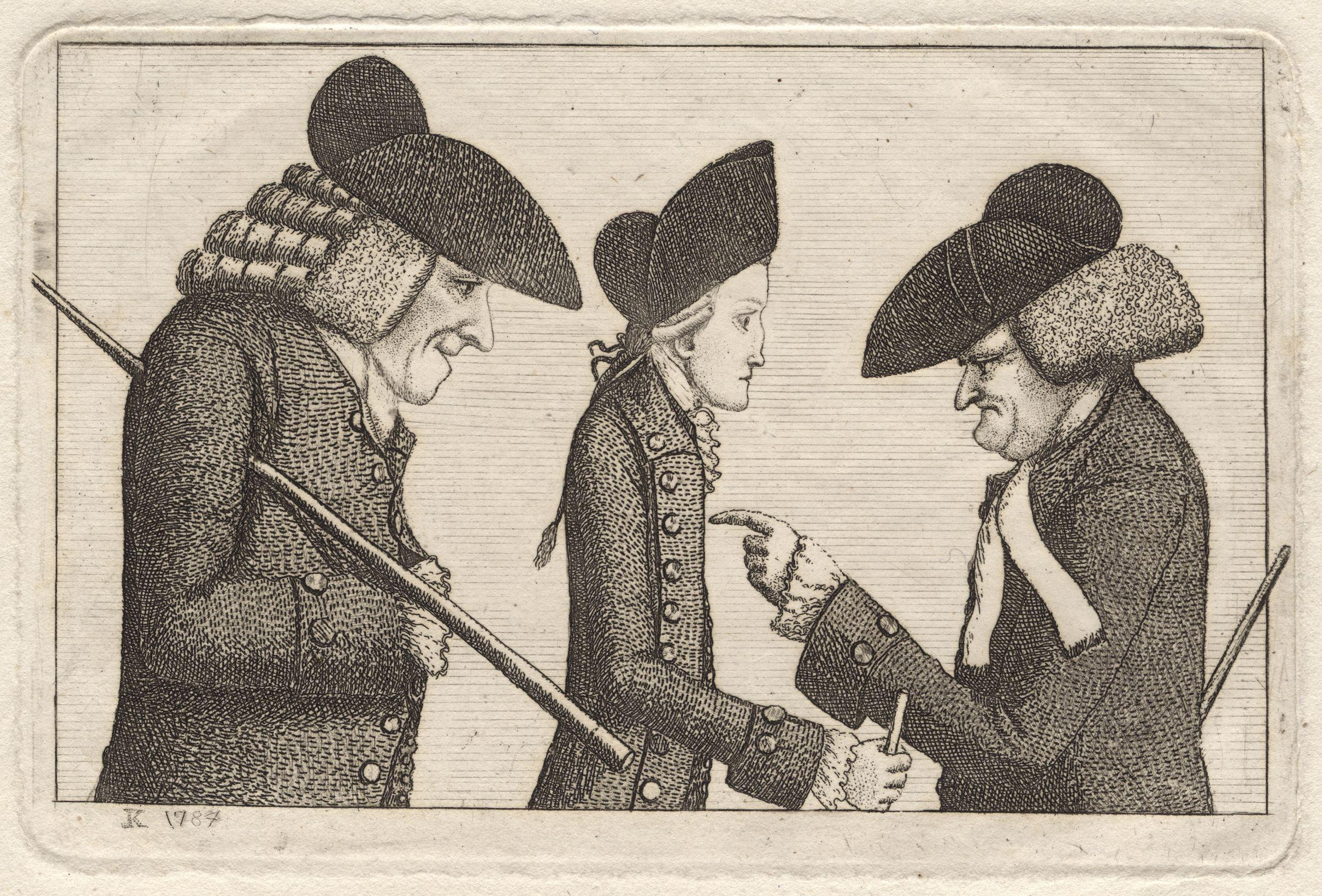 Henry Home, Lord Kames; Hugo Arnot; James Burnett, Lord Monboddo, by John Kay (died 1826). All images in this batch have been confirmed as author died before 1939 according to the official death date listed by the NPG.